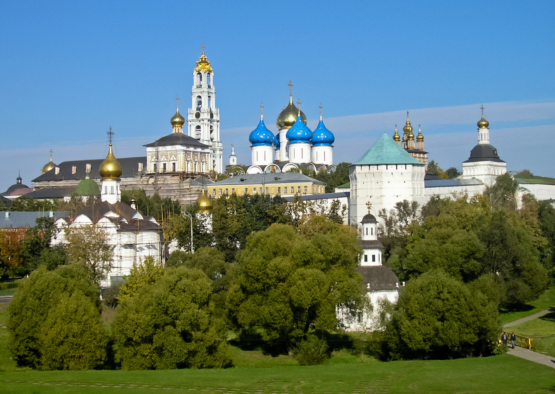 General view of Troitse-Sergiyeva Lavra.